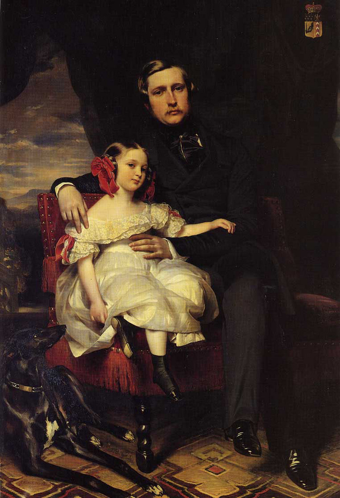 Napoléon-Alexandre Berthier (1810-1887), 2nd Prince de Wagram, was son of Marshal Louis Alexandre Berthier (1753-1815) and Maria Elisabeth Franziska in Bavaria.